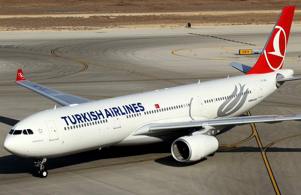 Turkish Airlines Airbus A330-343X (TC-JNJ)